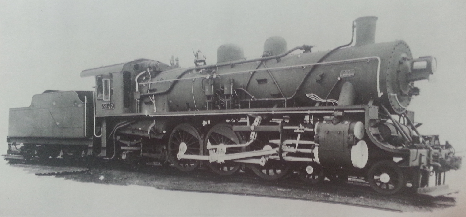 Builders photo of Manchukuo National Railway locomotive Pashishi5845 built by Kisha Seizo, 1936